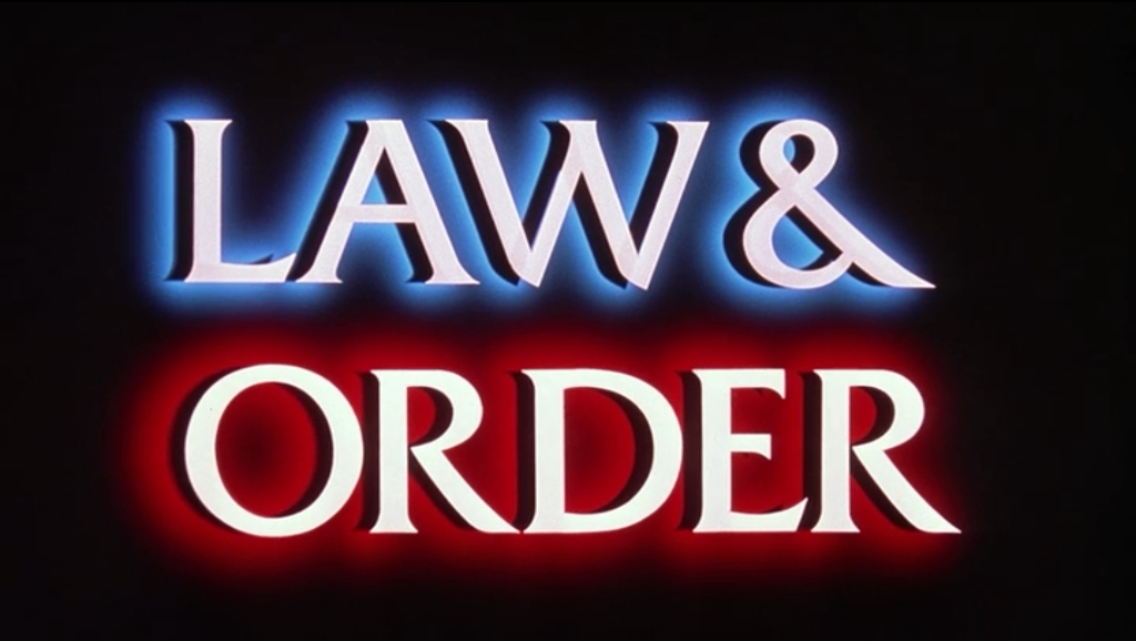 Logo for Law & Order.